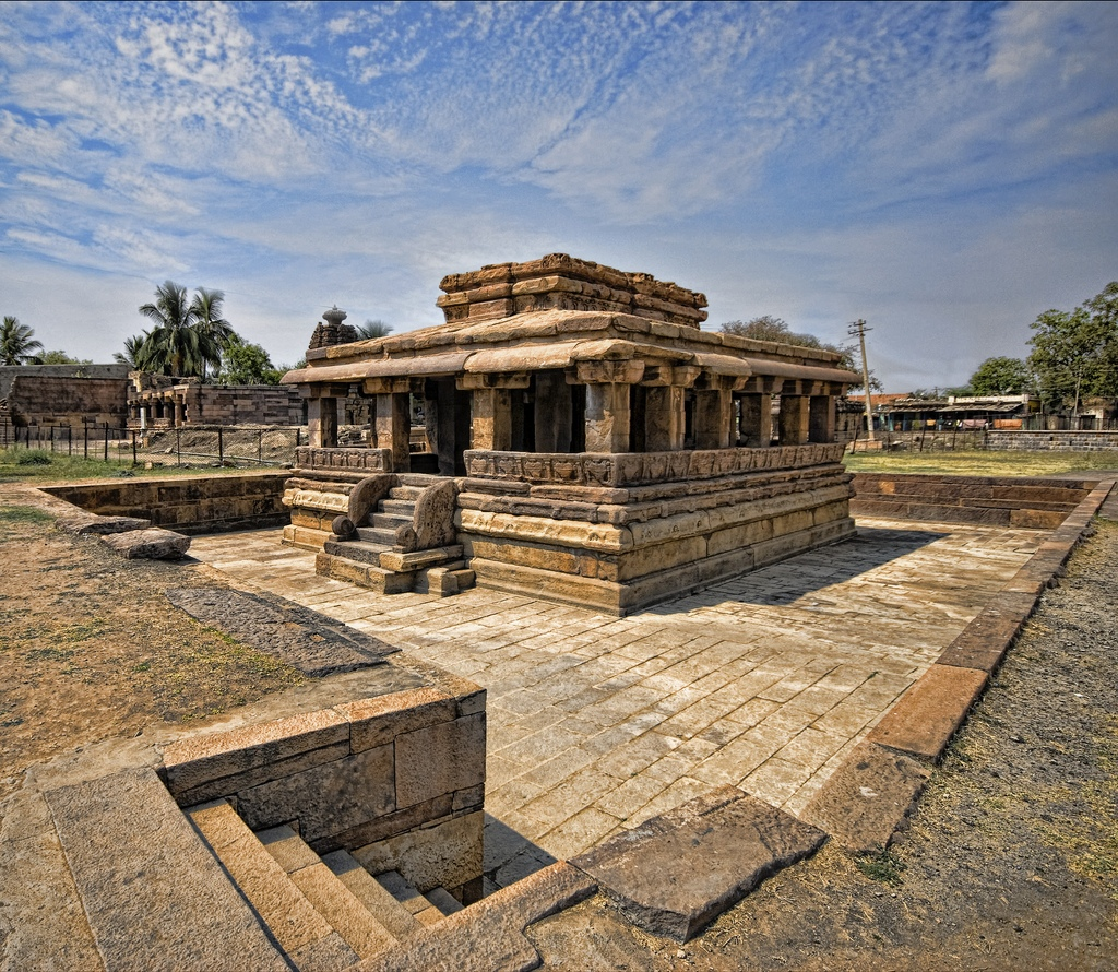 Huchchappayya matha in S.No. 270